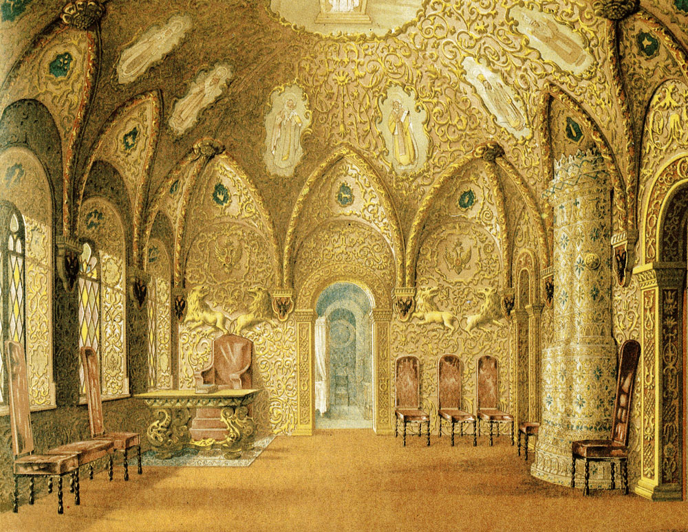 Interiors of Teremnoy Palace in Kremlin - after rebuilding in 1836-1849. As-built architectural drawing